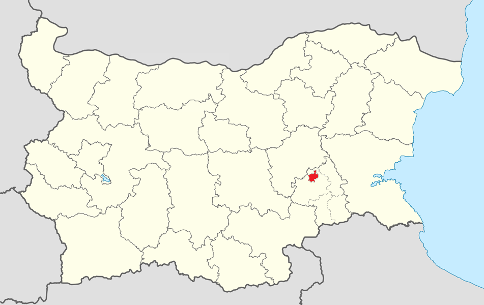 Location map of Yambol Municipality within Bulgaria and Yambol Province